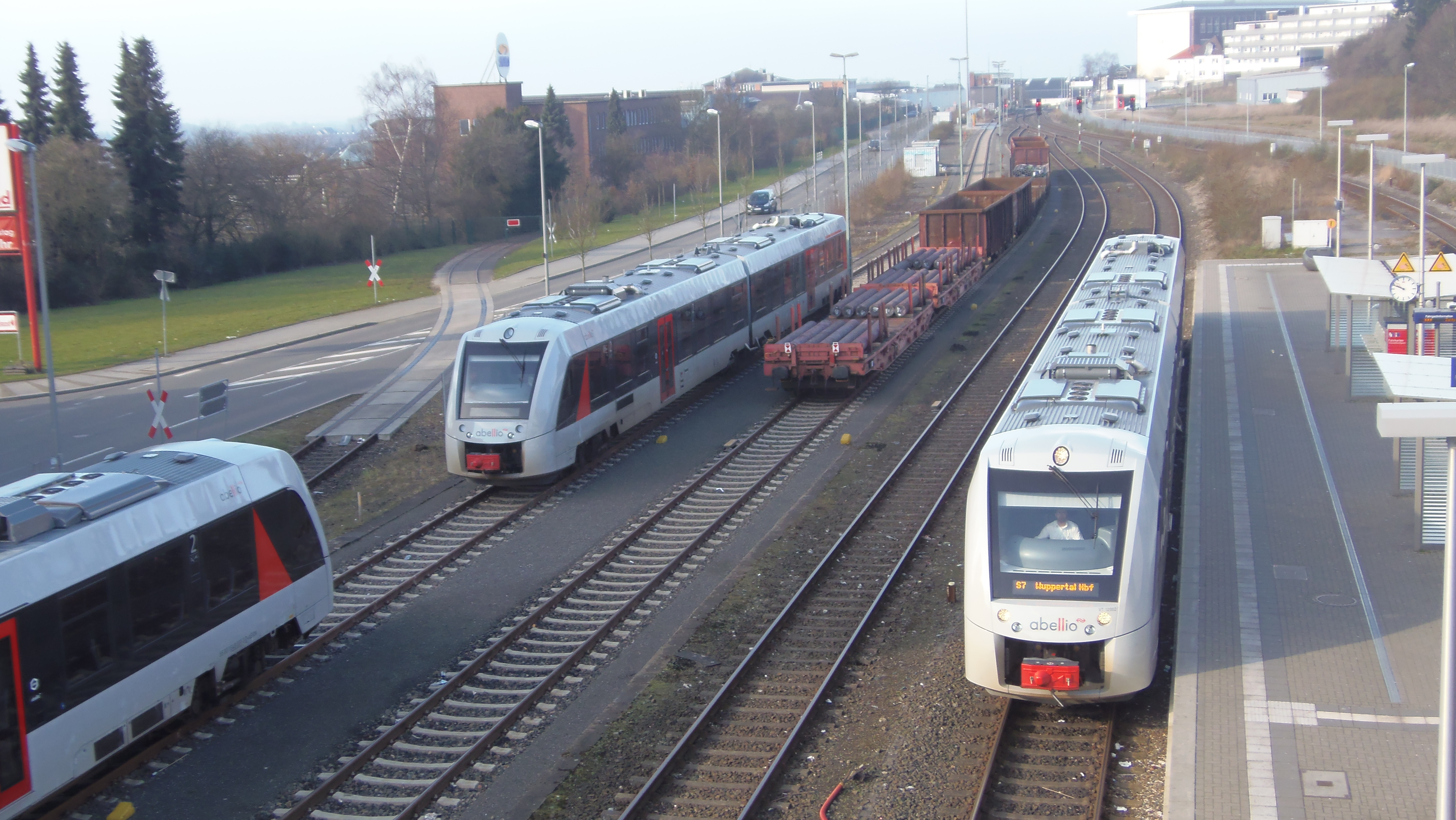 Tracks in Remscheid main station